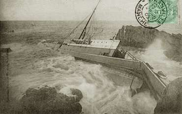 The wreck of LSWR ship SS Hilda, St Malo, November 1905